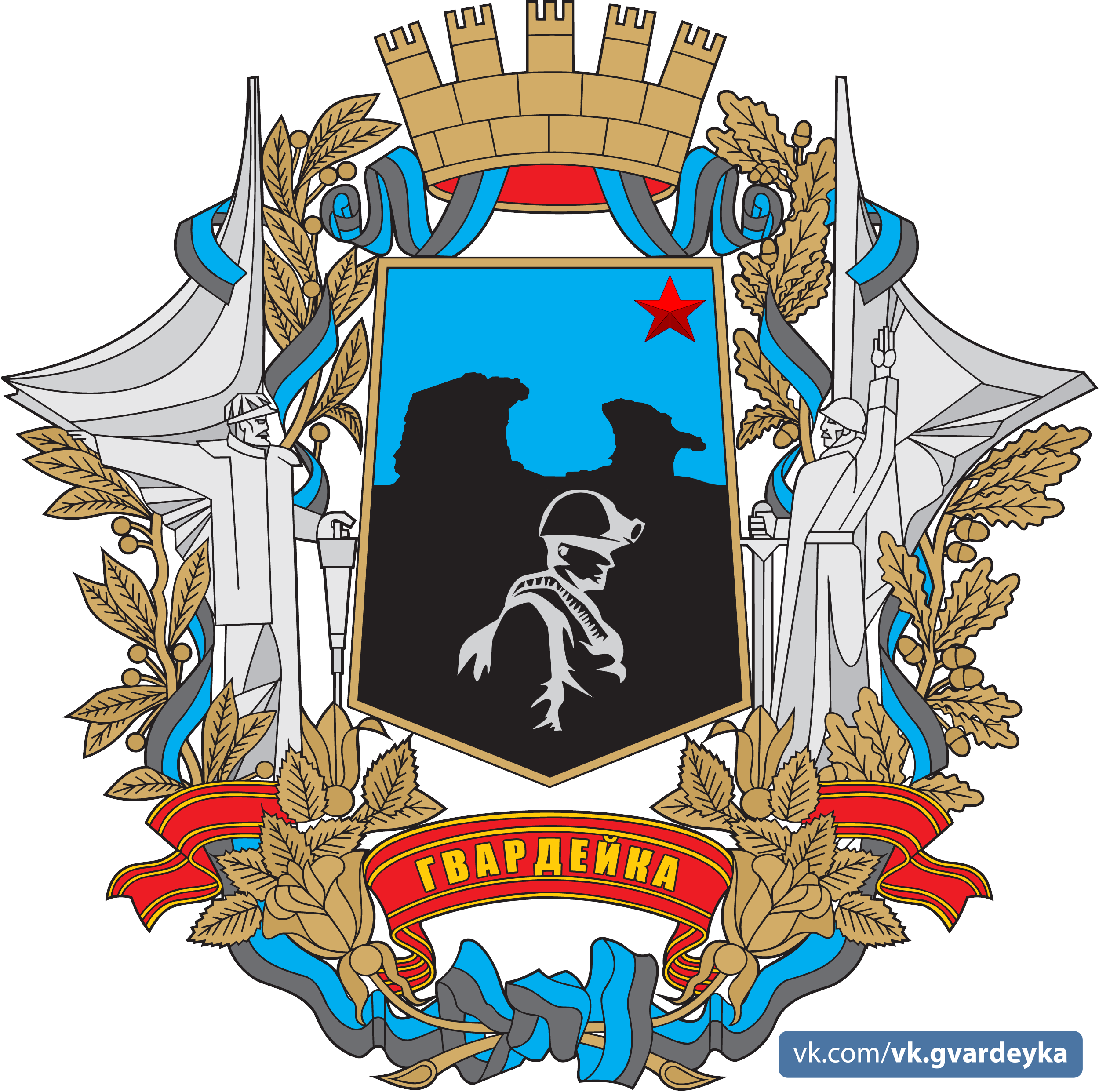 The coat of arms of the Chervonogvardeysky area Makeyevka